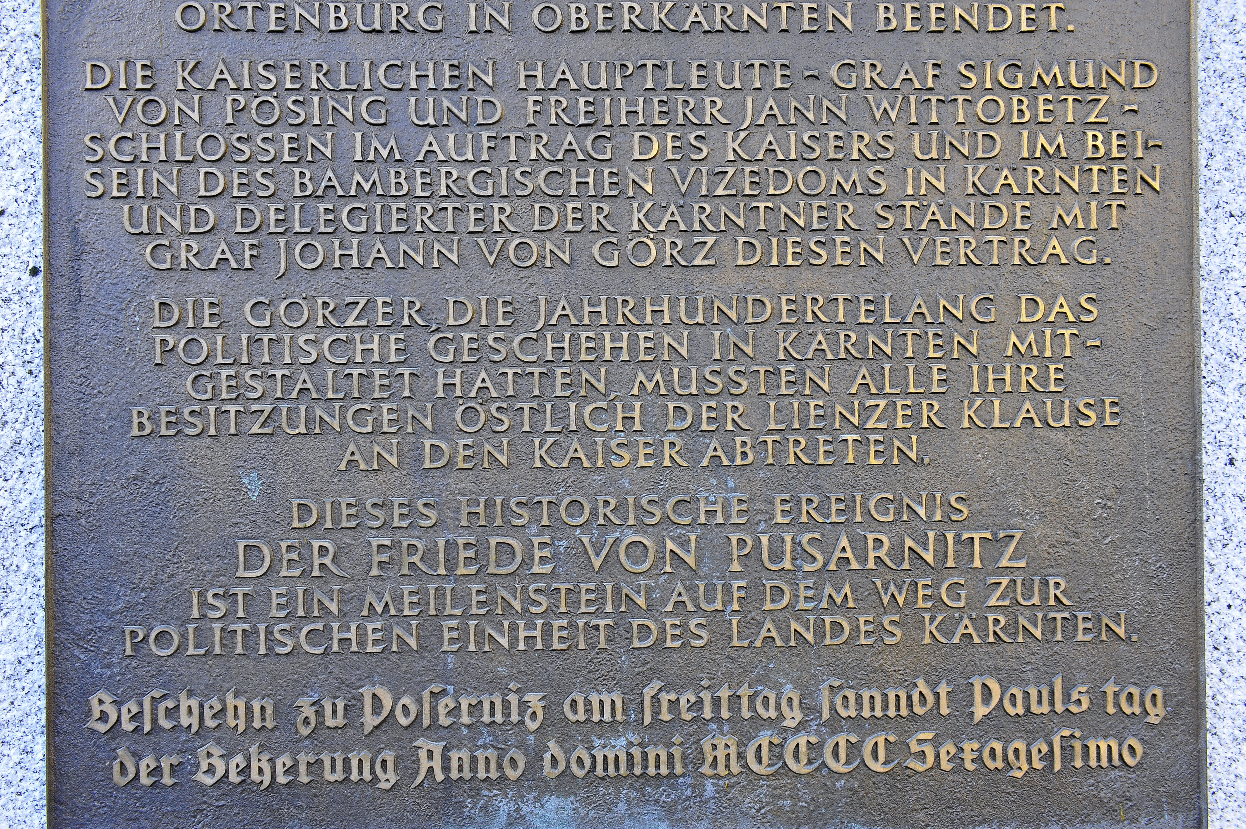 Lower part of the memorial plaque for the "Peace of Pusarnitz" (January 25th, 1460) at Pusarnitz, municipality Lurnfeld, district Spittal an der Drau, Carinthia / Austria / EU